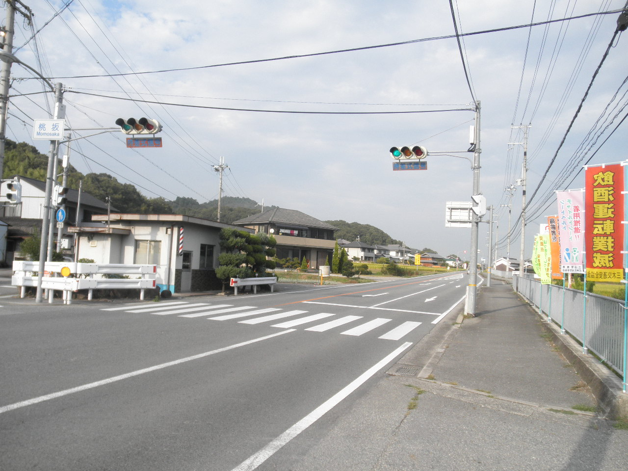 Kuchiyokawamachi Momosaka Mikicity Hyogopref Hyogoprefectural 20 Kakogawa Sanda Line and Hyogoprefectural road 85 Kobe Kato line